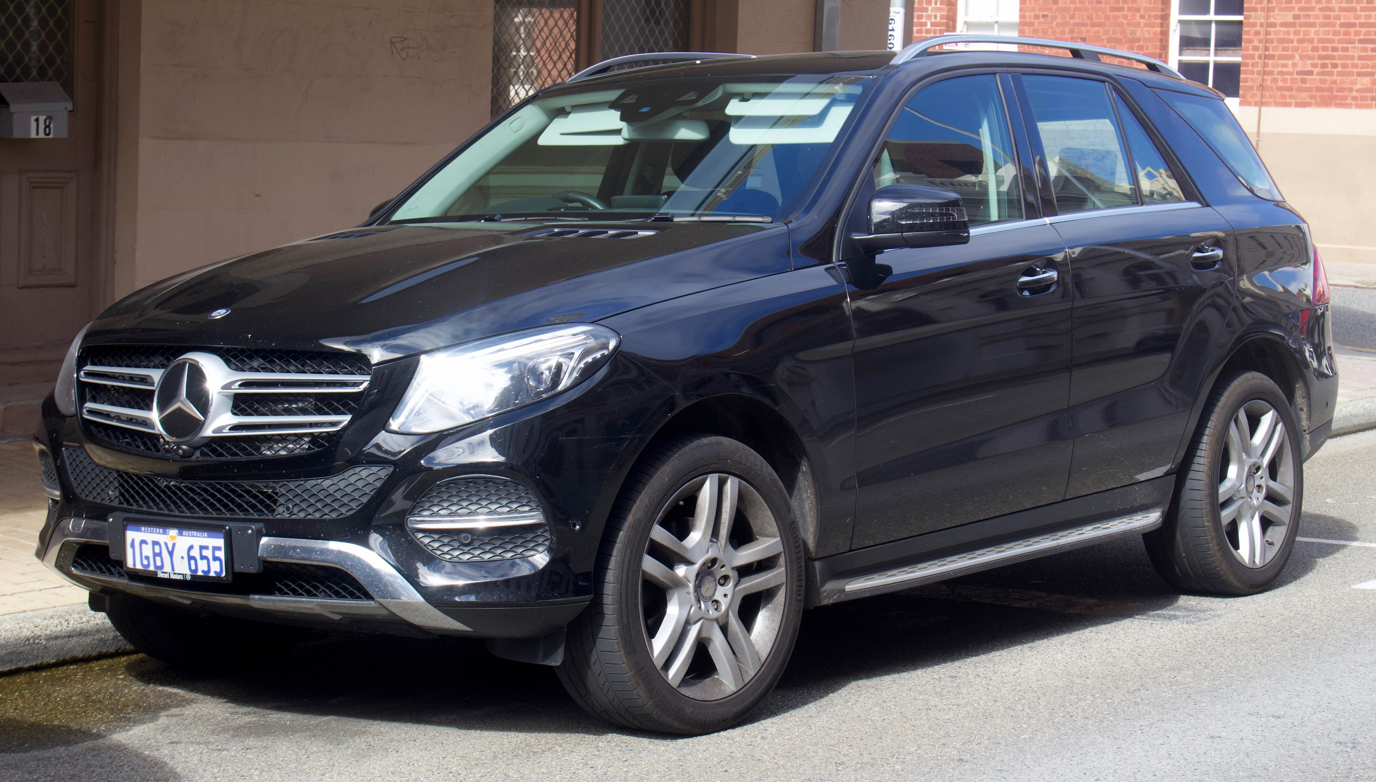 2016 Mercedes-Benz GLE 350d (W 166) wagon. Photographed in Fremantle, Western Australia, Australia.